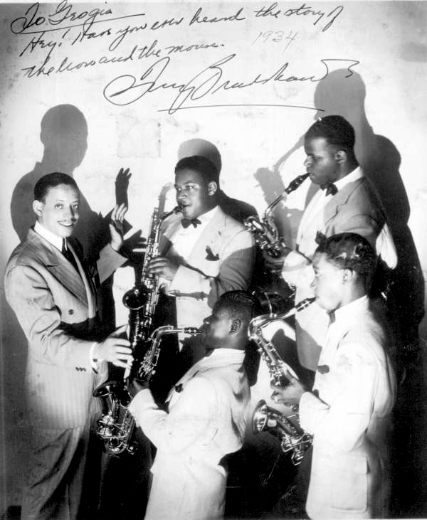 Persistent URL: Local call number: RC13743 Title: Tiny Bradshaw with saxophone players from his band Date: 1934 Physical descrip: 1 photoprint - b&w - 9 x 8 in. Series Title: Reference Collection Repository: State Library and Archives of Florida , 500 S. Bronough St., Tallahassee, FL 32399-0250 USA. Contact: 850.245.6700.